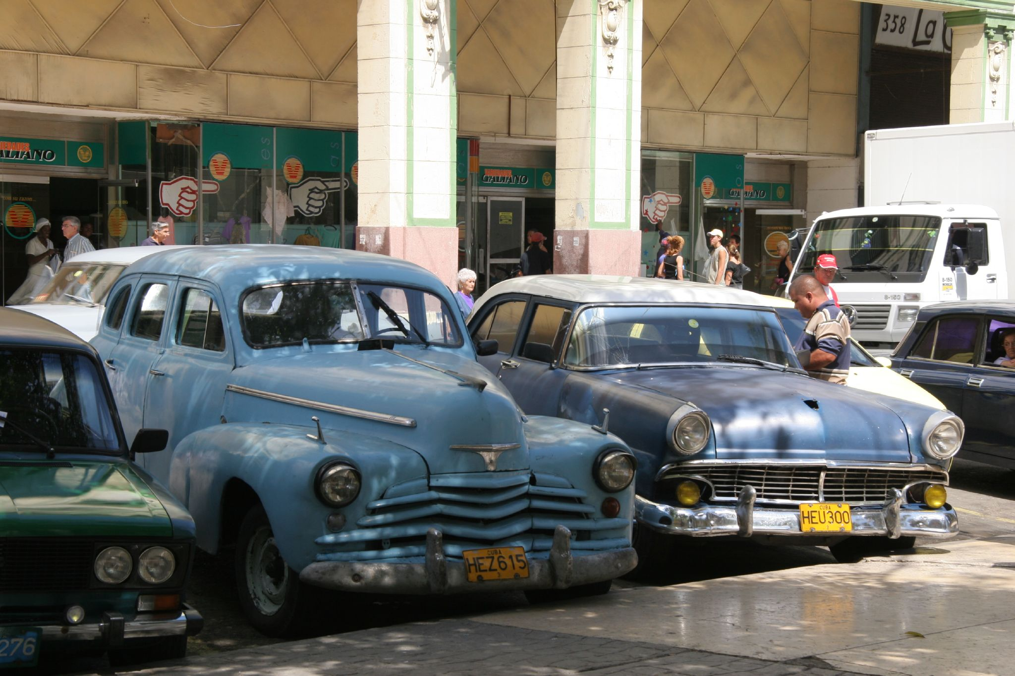 Old US cars in Havana